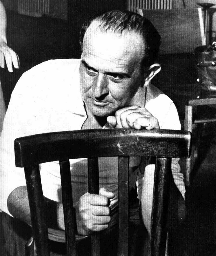 Italian actor Salvo Randone on stage